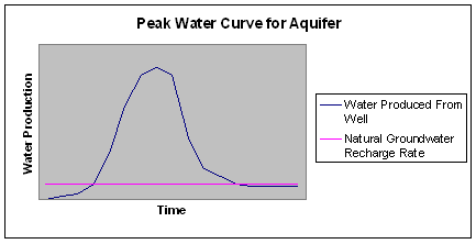 Potential peak water curve for production of groundwater from an aquifer. This graph shows a peak oil type production curve for water after production rates surpass the natural recharge rate.